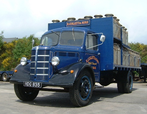 One of Collett's early vintage milk vehicles